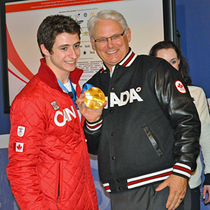 Canadian gold medalists in ice dancing Scott Moir and Tessa Virtue with British Columbia Premier Gordon Campbell (middle) at the 2010 Winter Olympics.